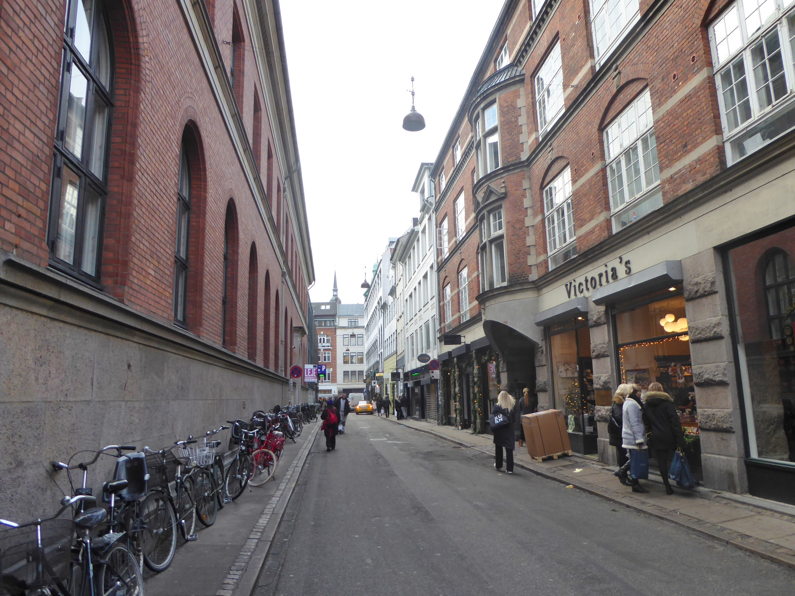 The street Silkegade in Indre By in Copenhagen.